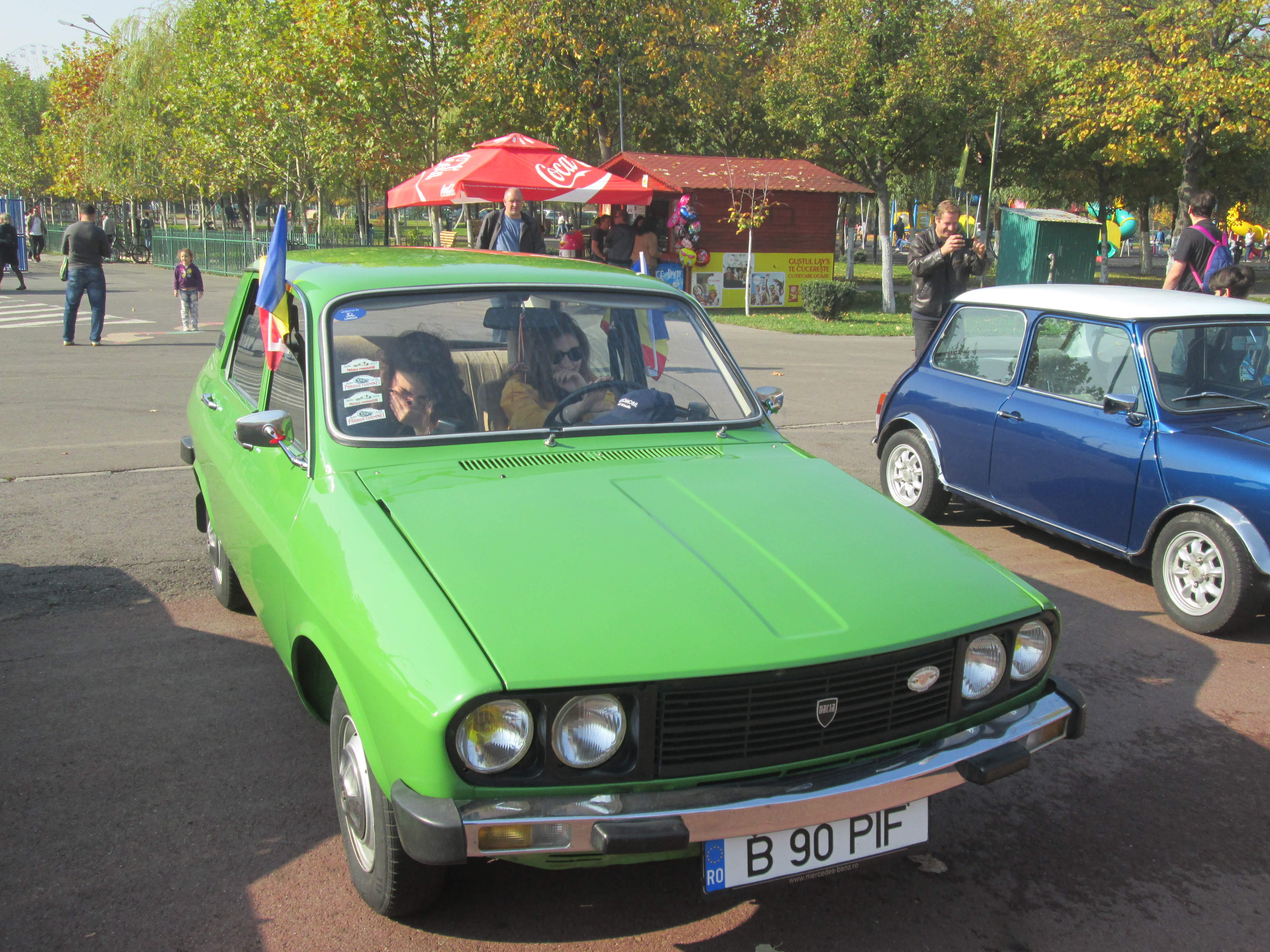 1983 Dacia 1310 at the Autumn Retroparade, Bucharest